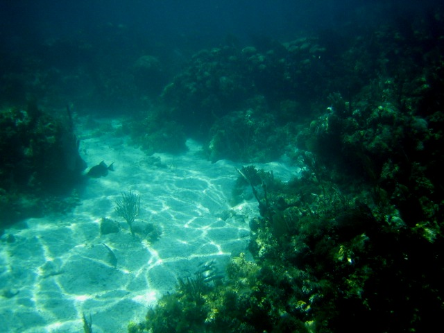 Underwater Scenery at Southwater Cay